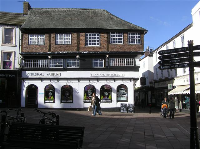 Guildhall Museum, Carlisle It is located at Fisher Street